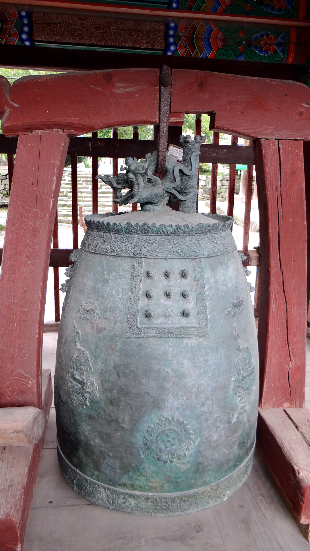 Naesosa Goryeo Bronze Bell cast in 1222 is Treasure #277 - Naesosa in Buan County, North Jeolla Province, South Korea was built in 633 CE and was rebuilt in 1633. Originally called Soraesa, around the Imjin War the temple changed its name to Naesosa.